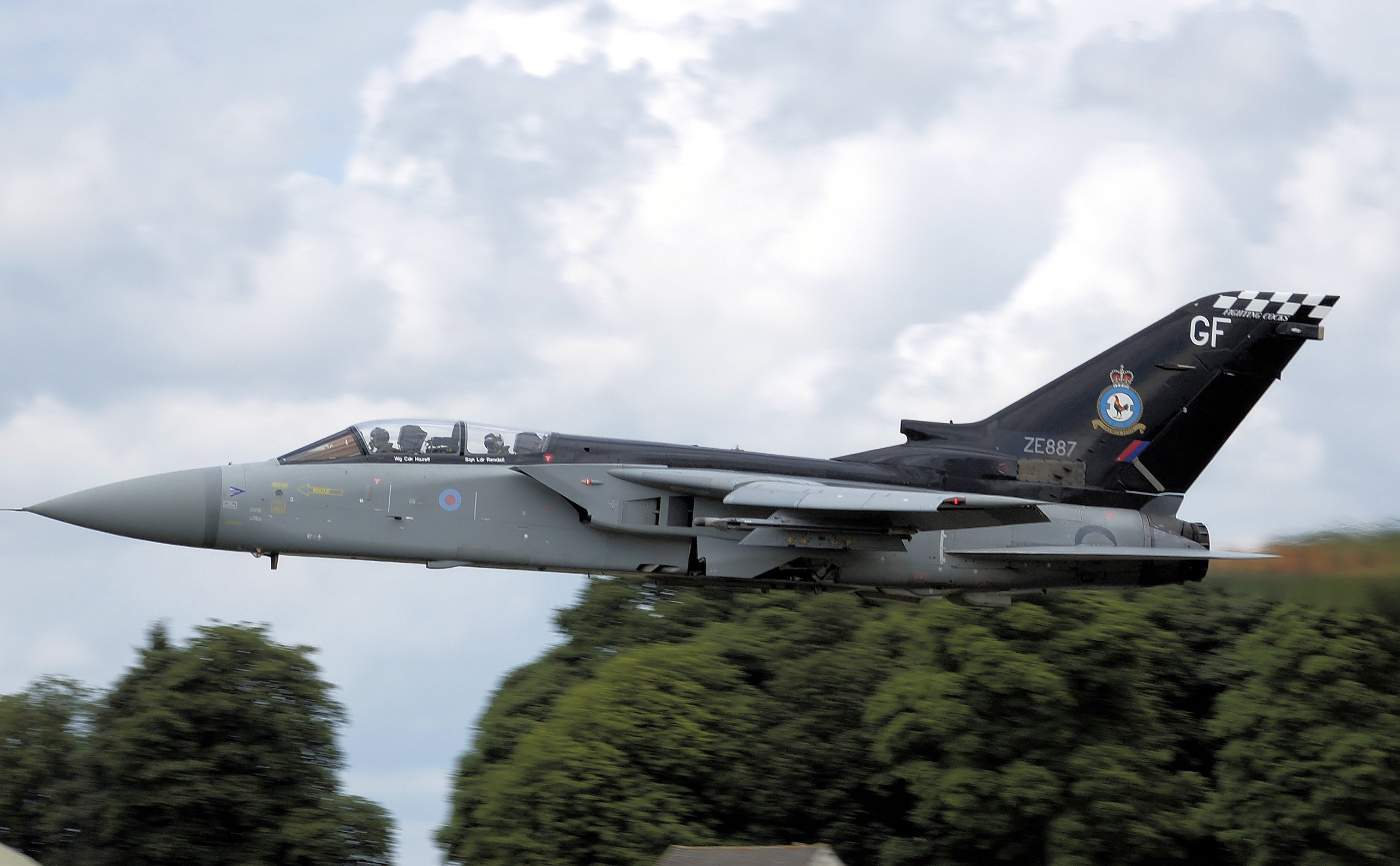 Panavia Tornado F3 (ZE887) takes off at Kemble Air Day 2008, Kemble Airport, Gloucestershire, England. Notice the orange glow in the engine exhaust that shows reheat is on.